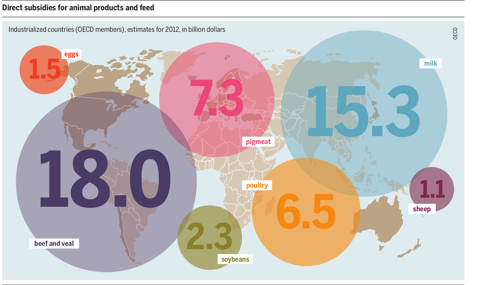 Meat Atlas 2014 - direct subsidies for animal products and feed